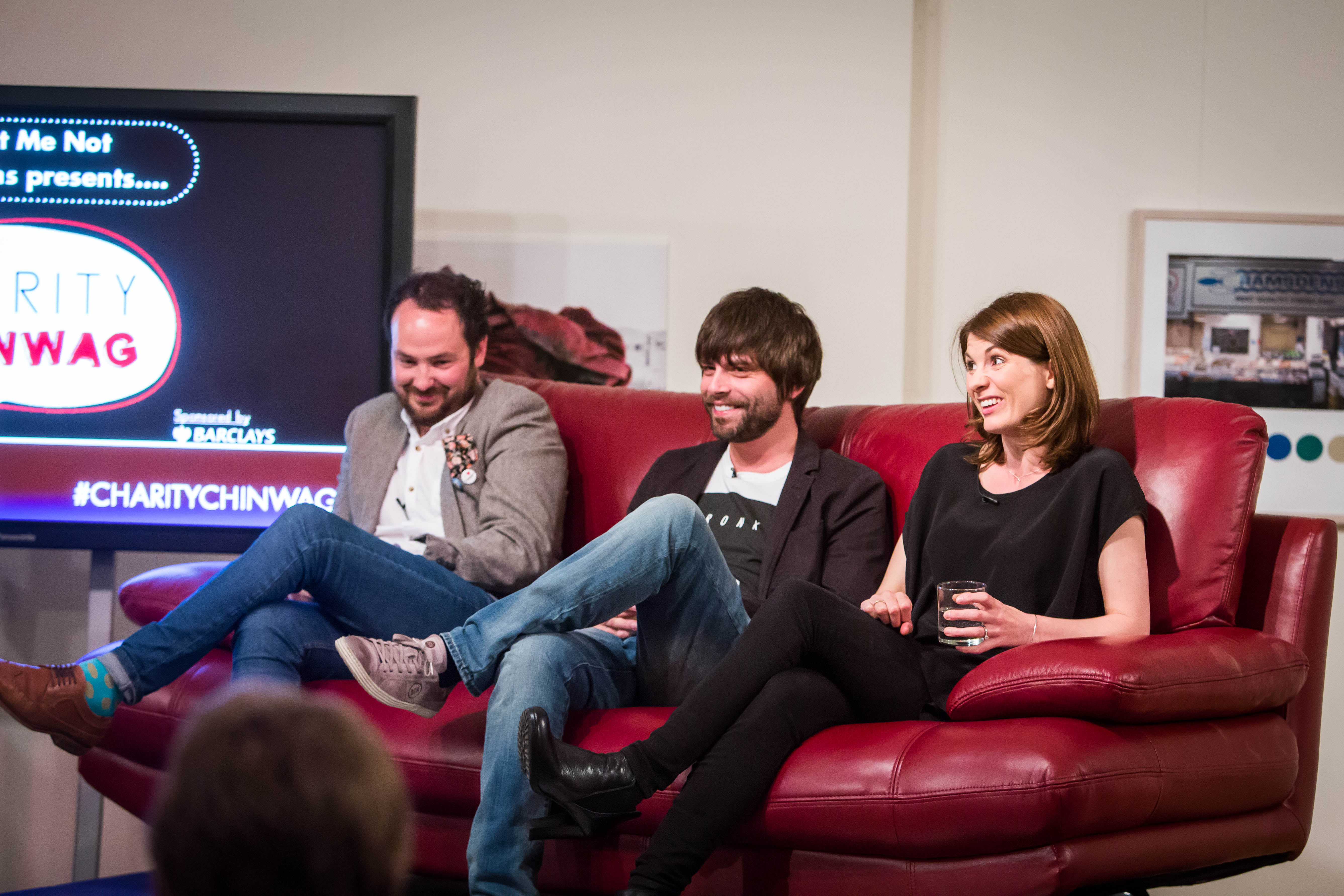 Matthew Burton, Benson Taylor, Jodie Whittaker at Hospice Fundraiser